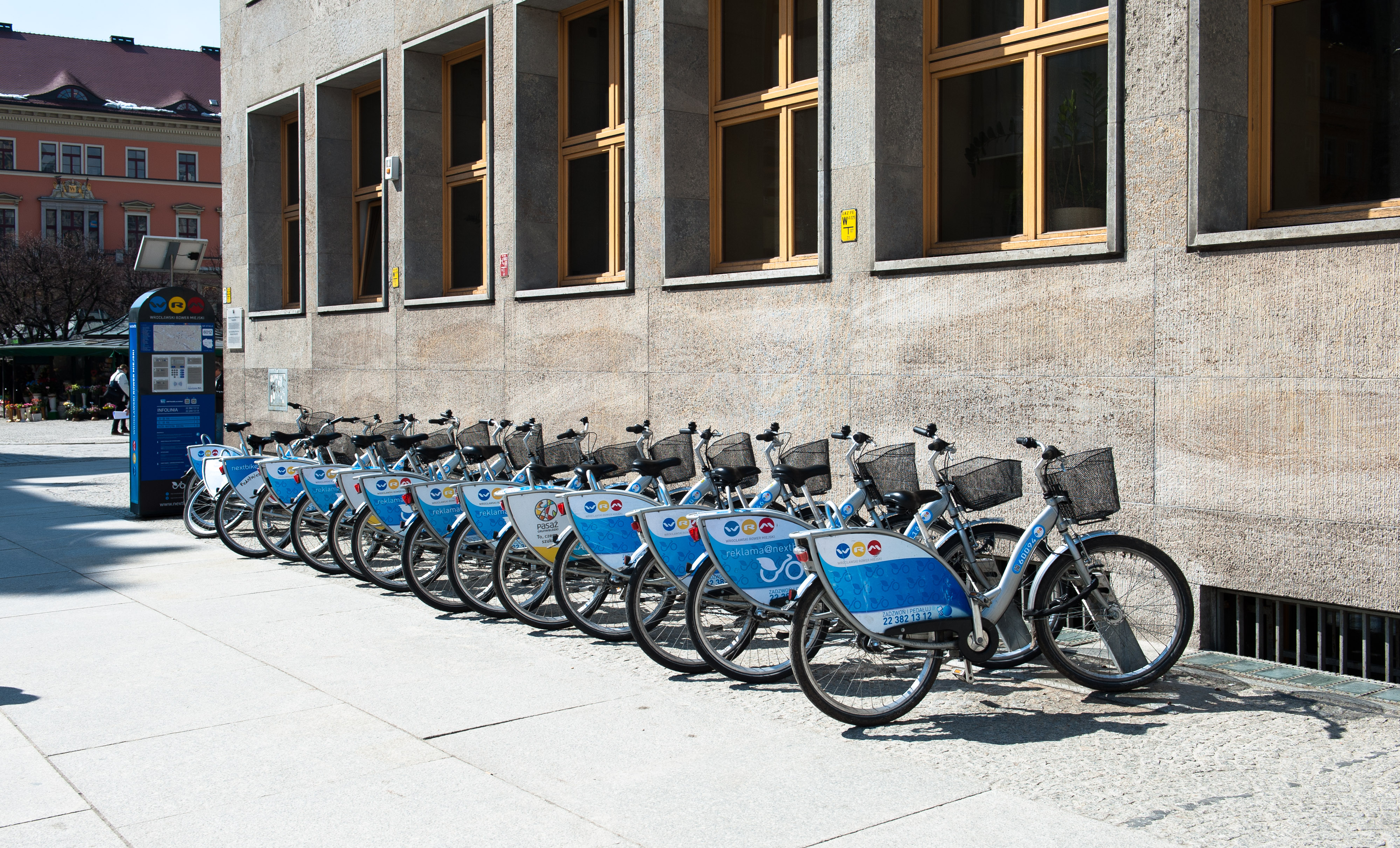 Bikes rent station 6012-Rynek/Plac Solny, Wrocław